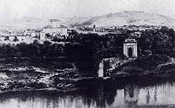 Villa Altoviti (1841)